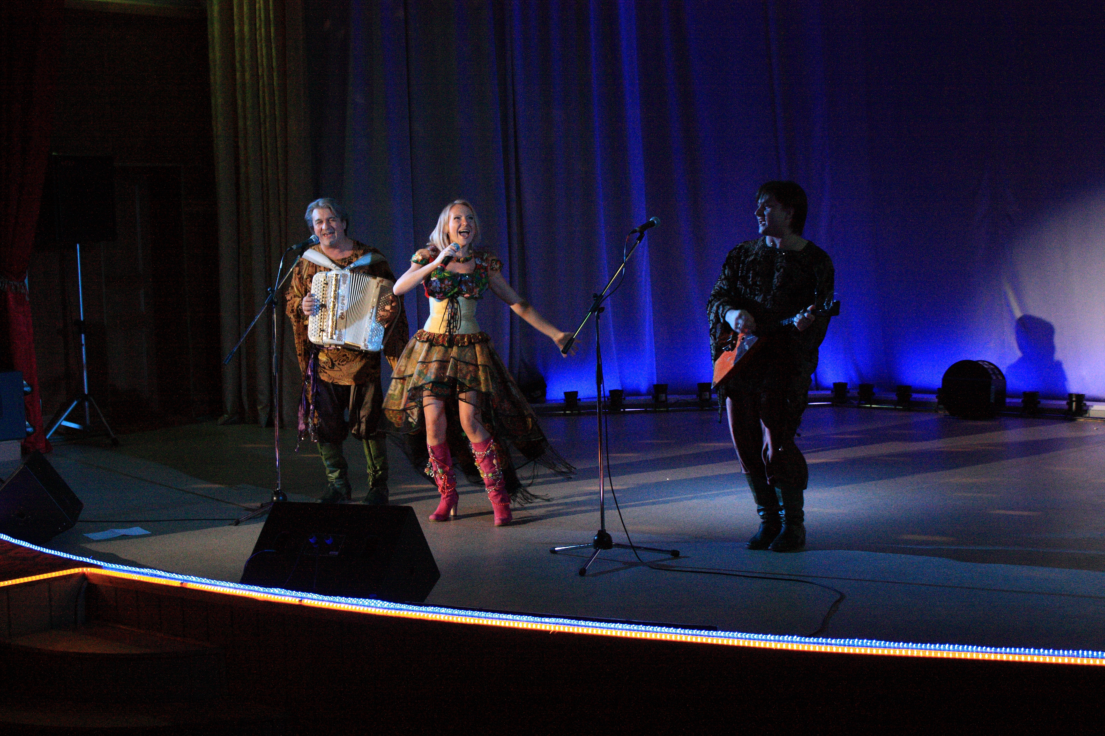 «Belyj den» (band of Russia) in Severodvinsk (Elena Vasiliok, Valery Syomin, Vladimir Golubchikov).